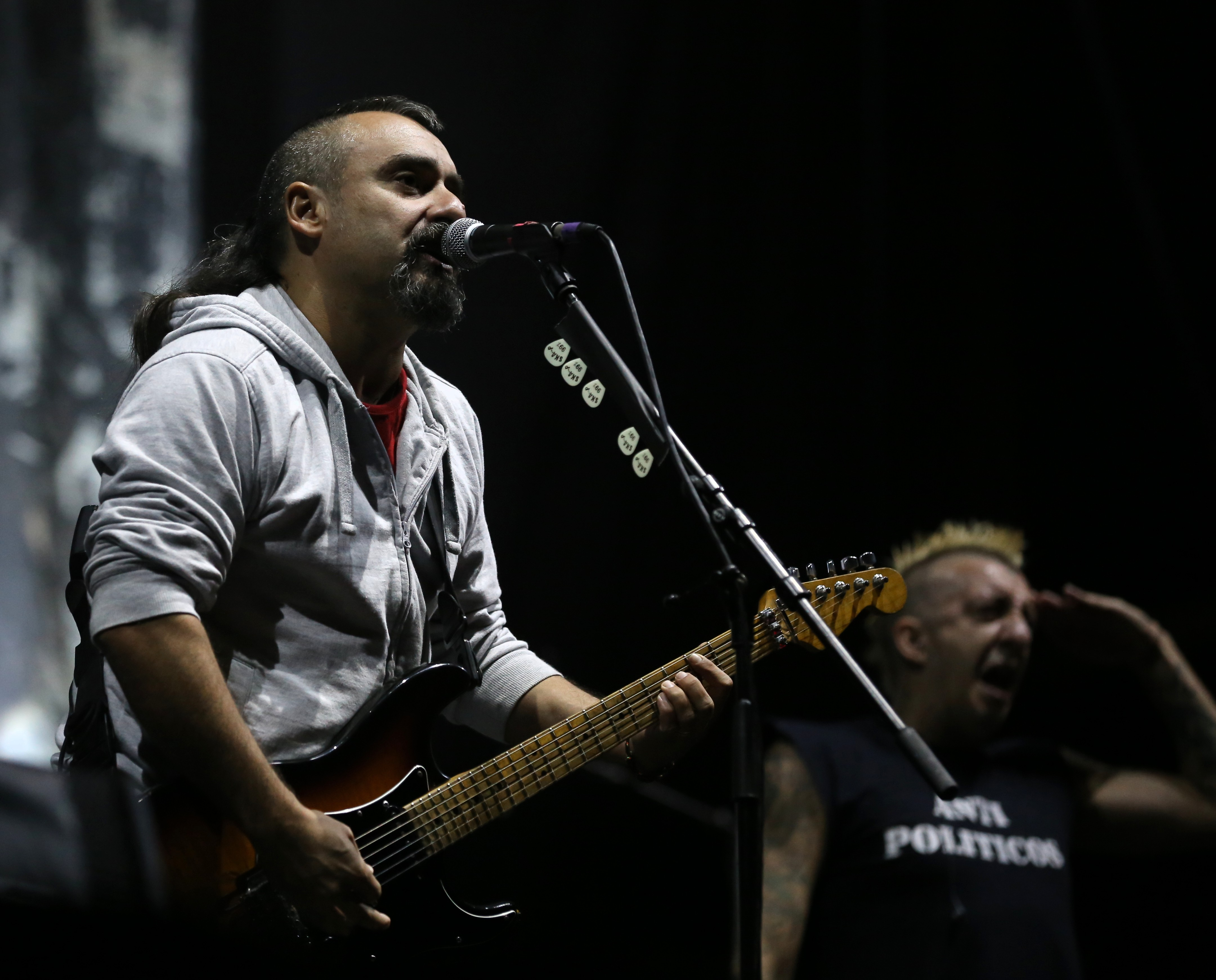 Ska-P at Chiemsee Reggae Summer Festival 2013